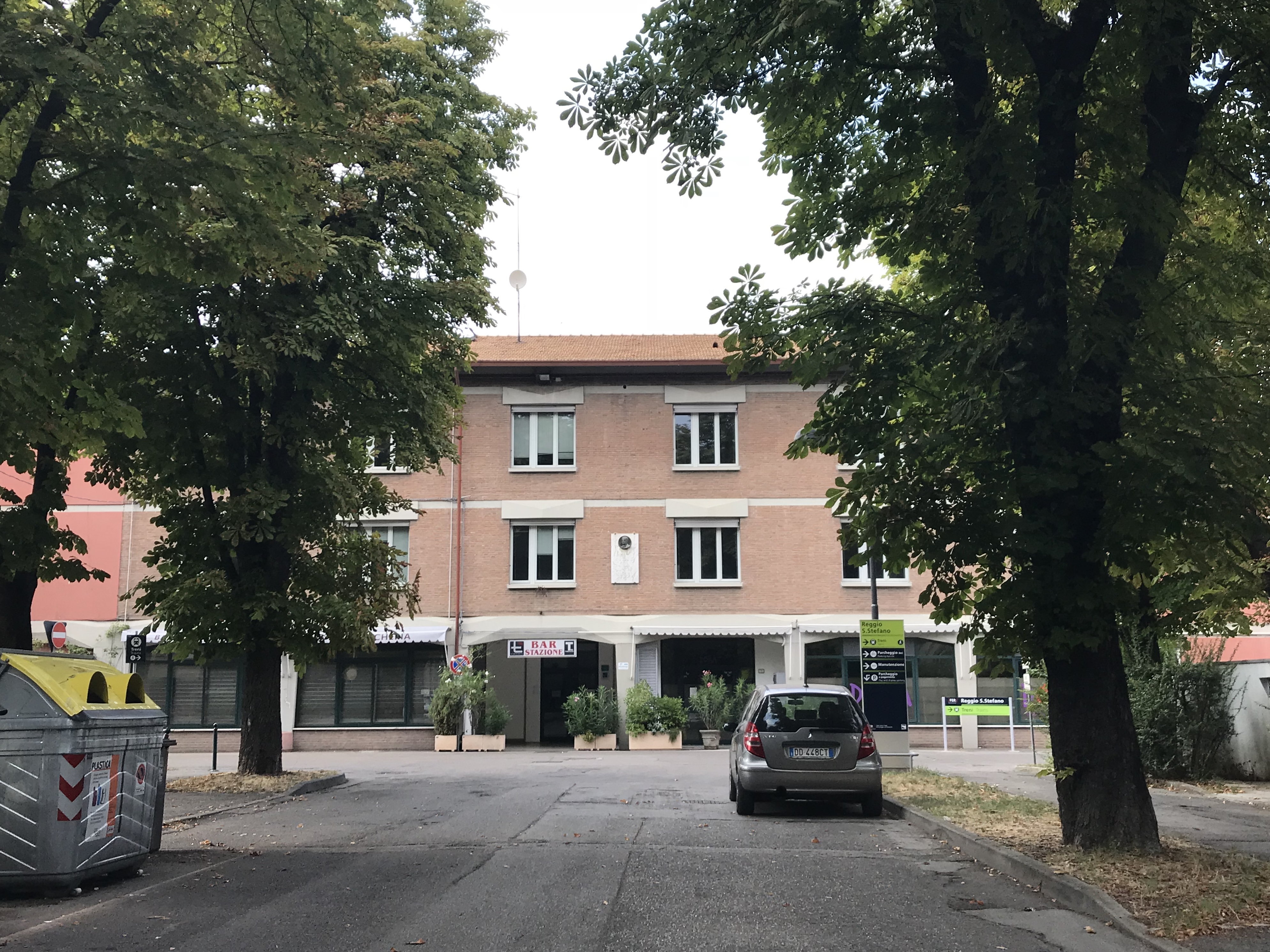 Reggio Santo Stefano railway station (2)